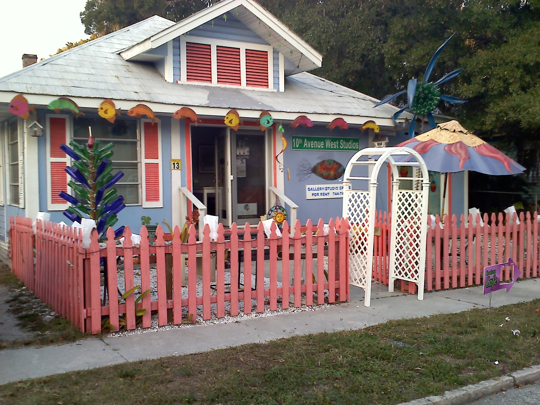 bpage (talk) 02:44, 30 November 2010 (UTC) This photo is entirely my own work and I release it into the public domain.